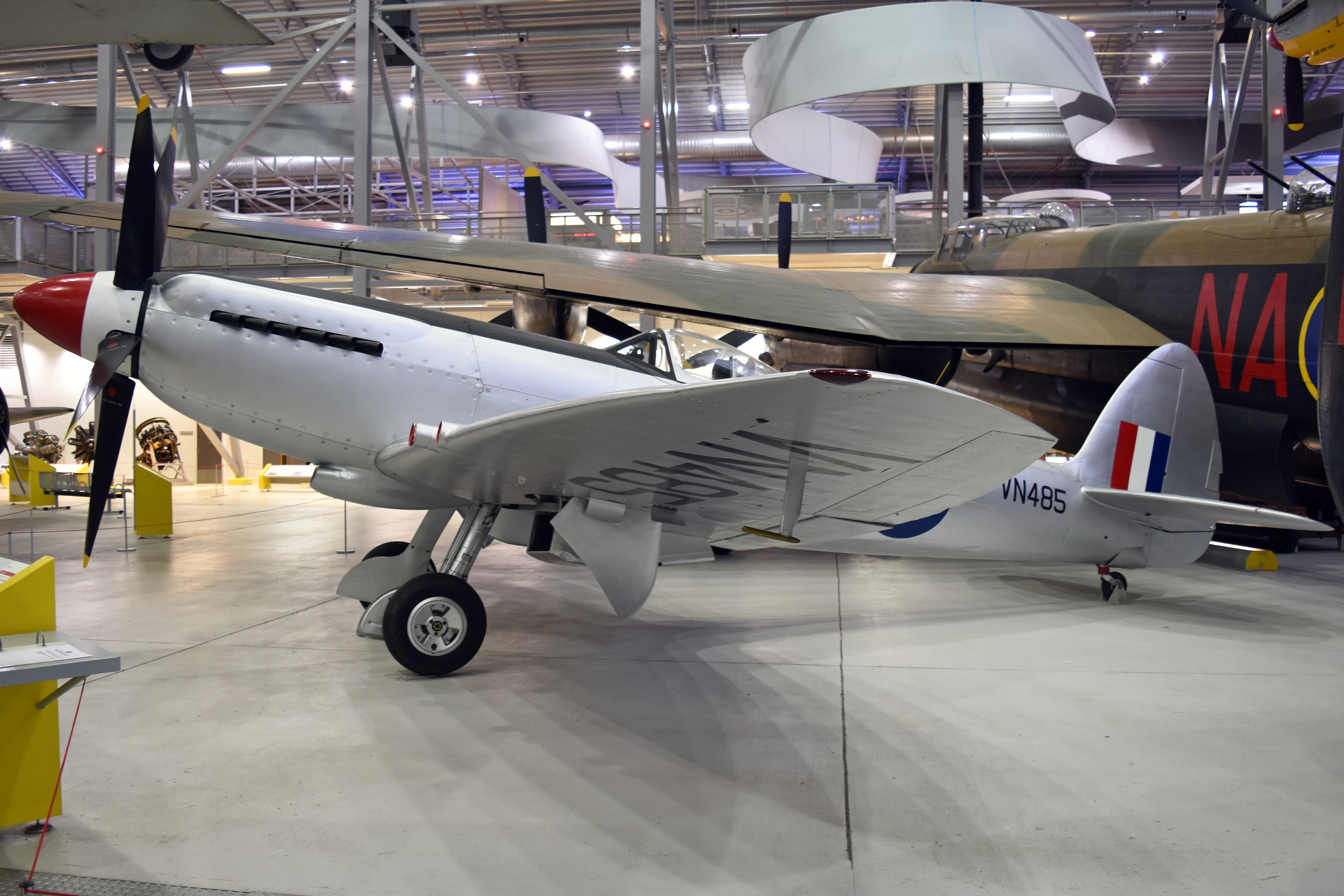 c/n SMAF.21567 Built in 1947, she initially served in Singapore, later transferring to Hong Kong. She was transferred to the Royal Hong Kong Auxiliary Air Force in May 1952 and flew with them until 30th September 1955 on which date she took part in the Queen’s Birthday Parade flypast. She then went on permanent display at Kai Tak. With the end of British rule in Hong Kong, the Spitfire was returned to the UK and is now on display in the ‘AirSpace’ hangar at the Imperial War Museum, Duxford Airfield, Cambridgeshire, UK. 26th January 2018 The following history for VN485 comes from the IWM website:- “Delivered to RAF 29 August 1947. At 9 MU Cosford till June 1949 when it was shipped to Hong Kong on HMS Ocean, departing Renfrew docks 30 June. Stored Seletar from August 1949 to 31 October 1950 when taken on strength of 80 Squadron RAF at Kai Tek. December 1950 suffers category 4 damage in accident. Back with 80 Squadron from 31 May 1951. 31 May 1952 - transferred to the Hong Kong Auxiliary Air Force. 15 Jan 1955 - it had its last official sortie for HKAAF. Remained in use with HKAAF until 21 April 1955, when it flew for the last time in the Queens Birthday Parade Flypast over Hong Kong. 30 Sept 1955 - Struck off Charge. 19 Sept 1968 - formally handed over to HKAAF was displayed on a number of ceremonial occasions before being refurbished in 1983 by HKAAF & local enthusiasts. It went on permanent display for the next 5 years outside the RHKAAF headquarters building at Kai Tak Internationl Airport.”